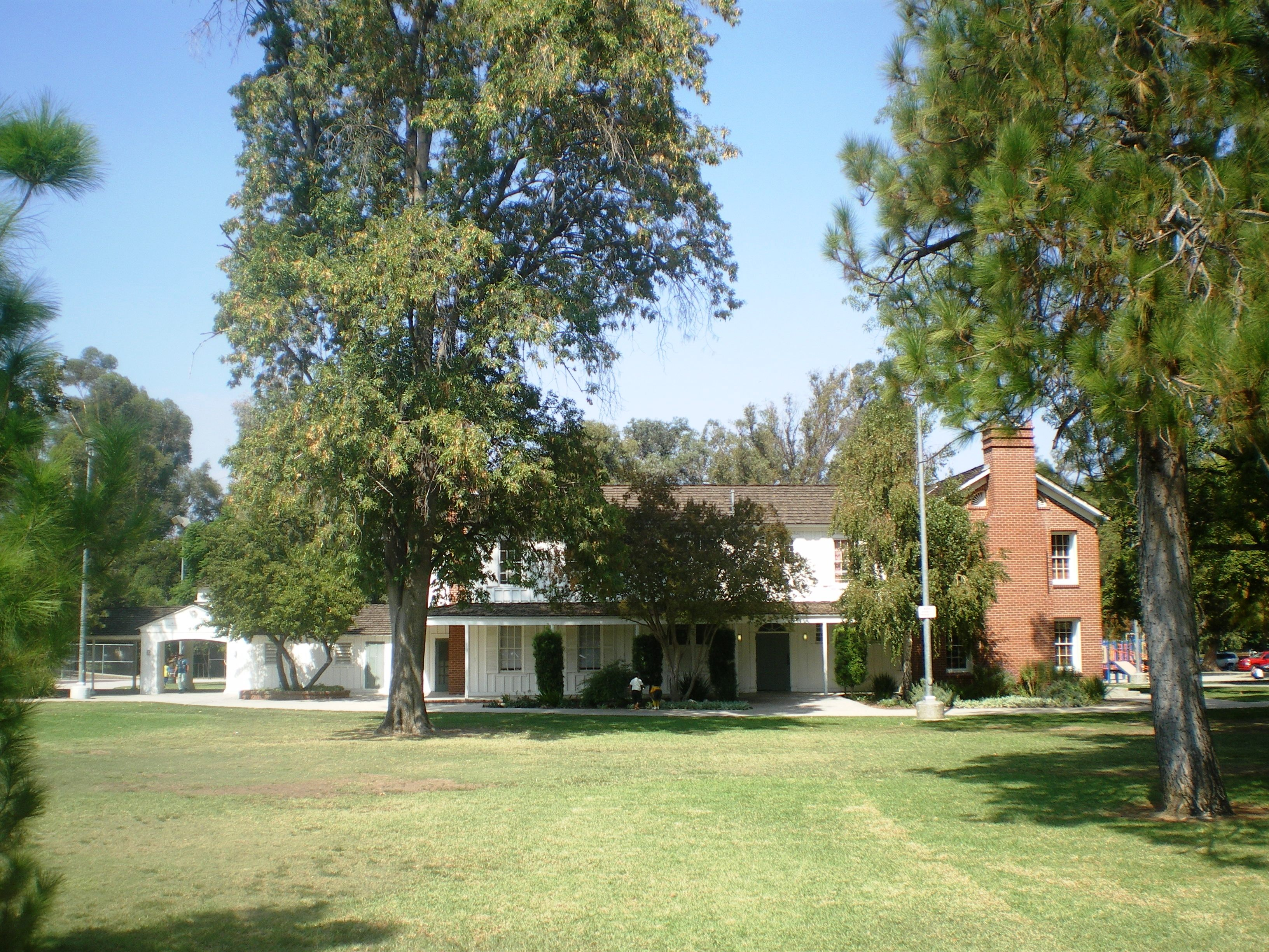 Shadow Ranch, a historic ranch house, and a Los Angeles City Park, in the western San Fernando Valley, Southern California. Built in redwood, surrounding an existing adobe, by Alfred Workman during 1869-1872. He also imported the first Blue Gum Eucalyptus trees (Eucalyptus globulus) to California. Their shadow patterns on the residence inspired a later owner to name it Shadow Ranch, and towering Blue Gums are now one of the state's iconic symbols. Los Angeles Historic-Cultural Monument #9, located at 22633 Vanowen Street, West Hills, Los Angeles.